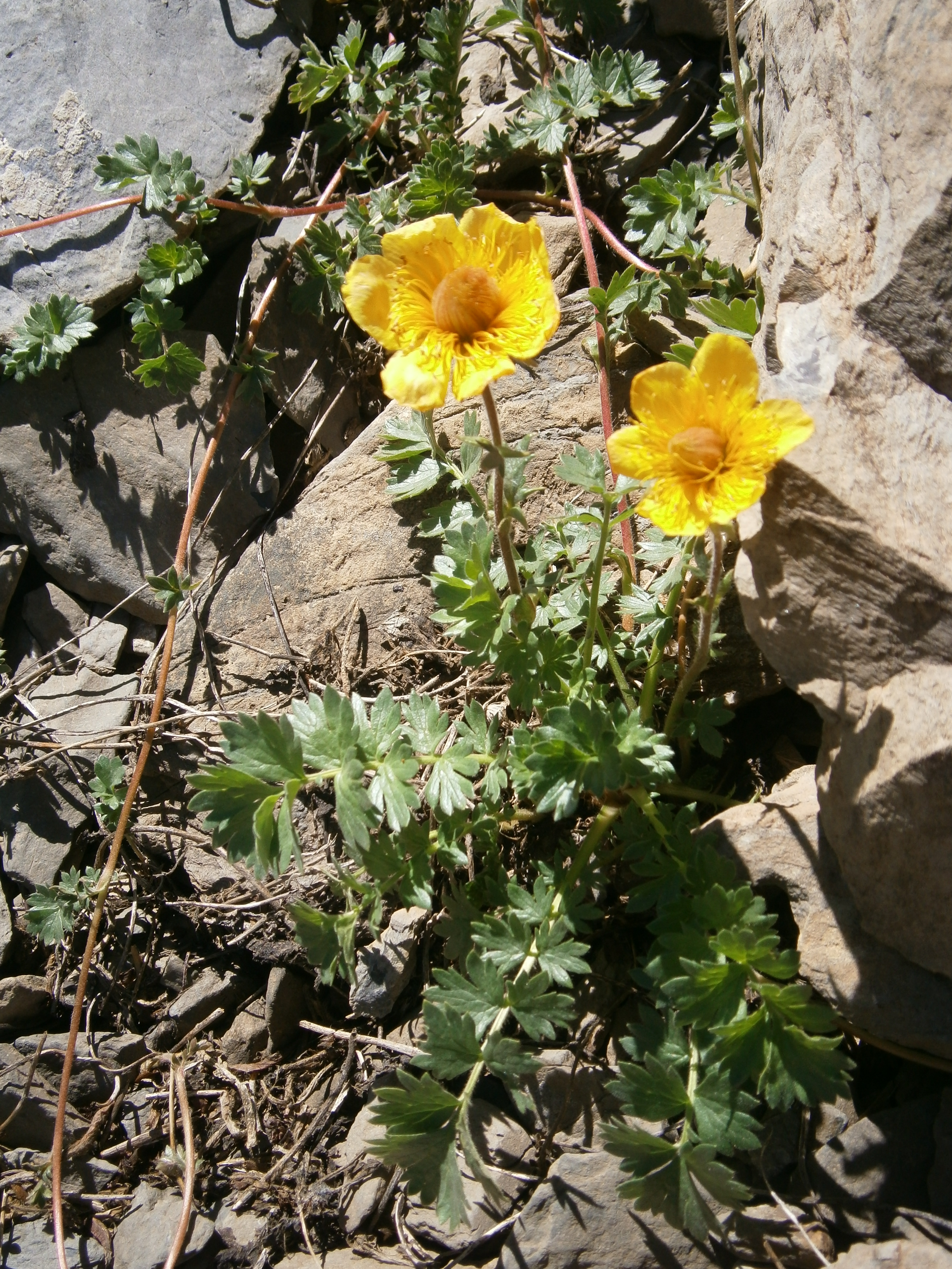 Geum reptans